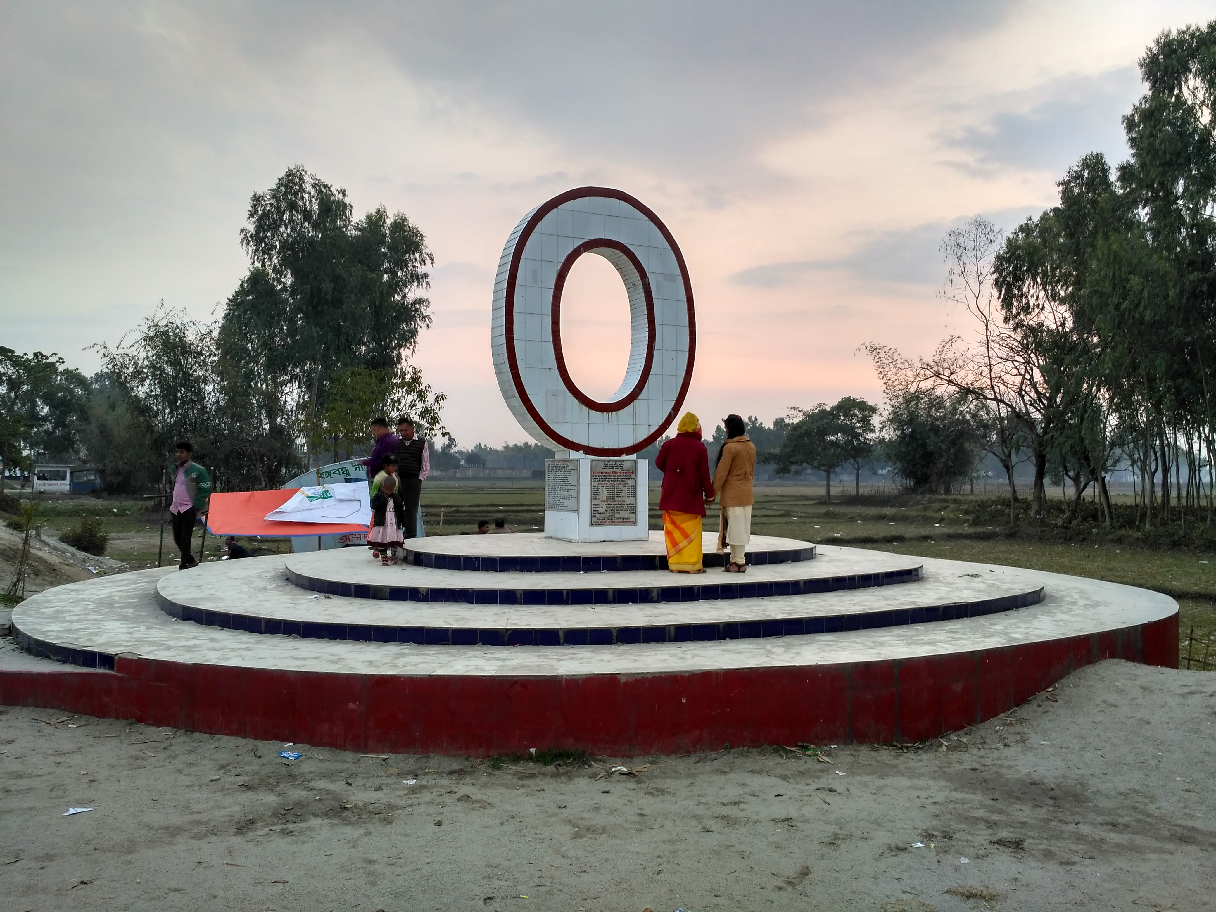 Banglabandha zero point at Banglabandha, Tetulia Upazila, Panchagarh district, Bangladesh. Some tourists in the picture. (01.03.2019)